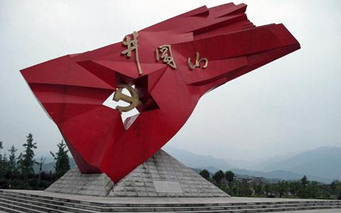 Jingangshan Mountains